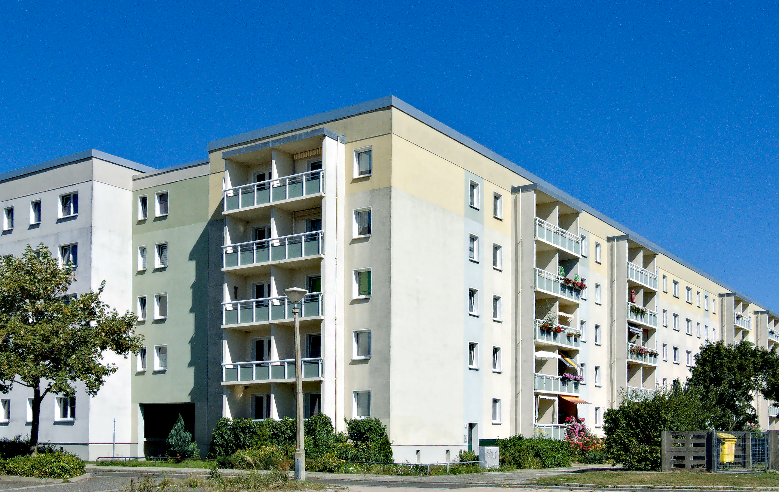 Modernized Plattenbau in Hutungstraße facing the Ernst-Mucke-Platz.